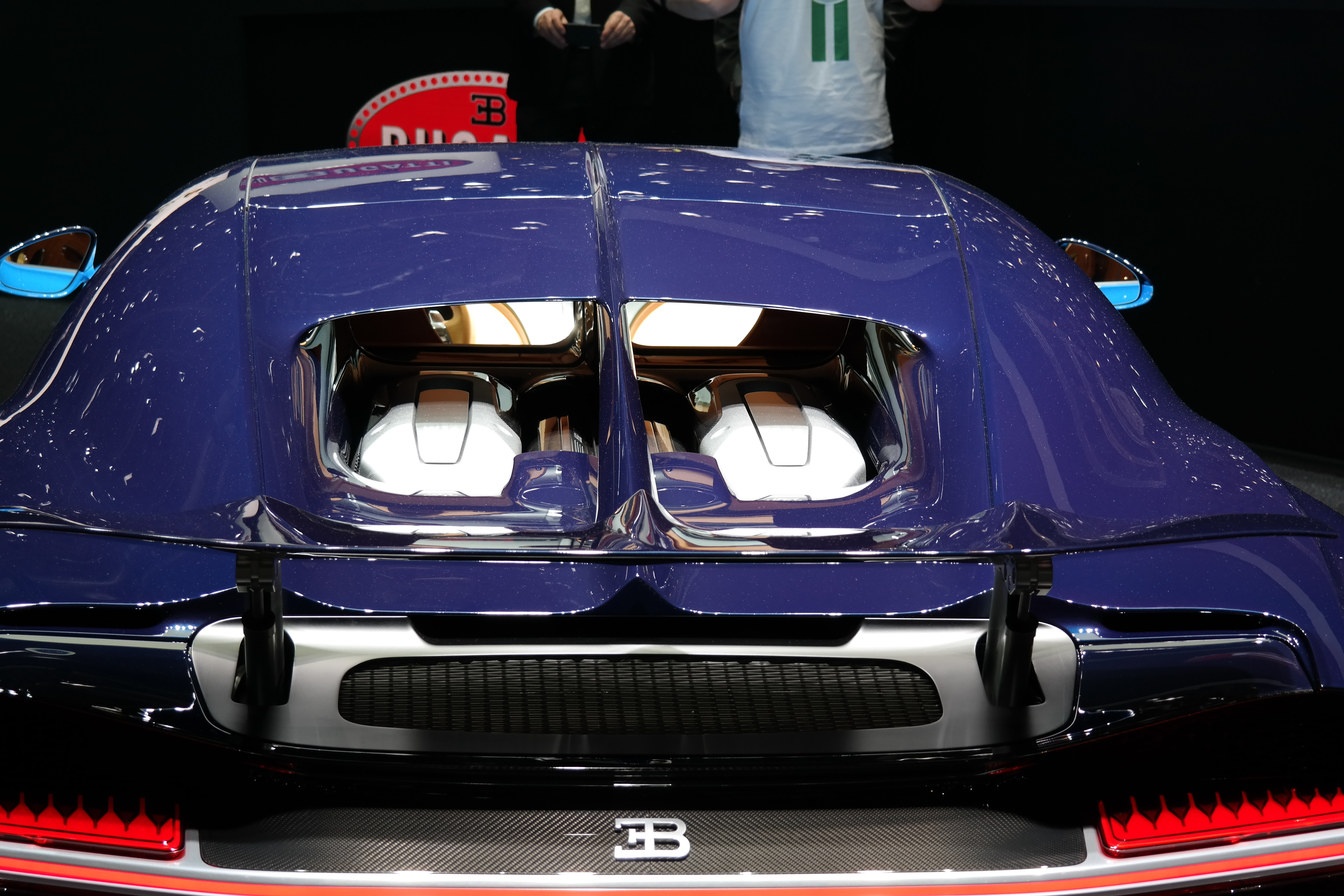 Geneva Motor Show 2016 (photo taken on the first press day)